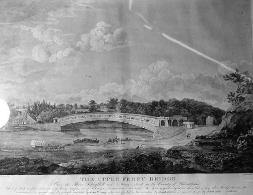 "The Upper Ferry Bridge over the River Schuylkill" (circa 1813), engraving by Jacob J. Plocher, after a painting by Thomas Birch.